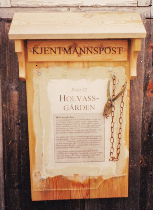 Kjentmannspost Rissa Kommune post nr 22